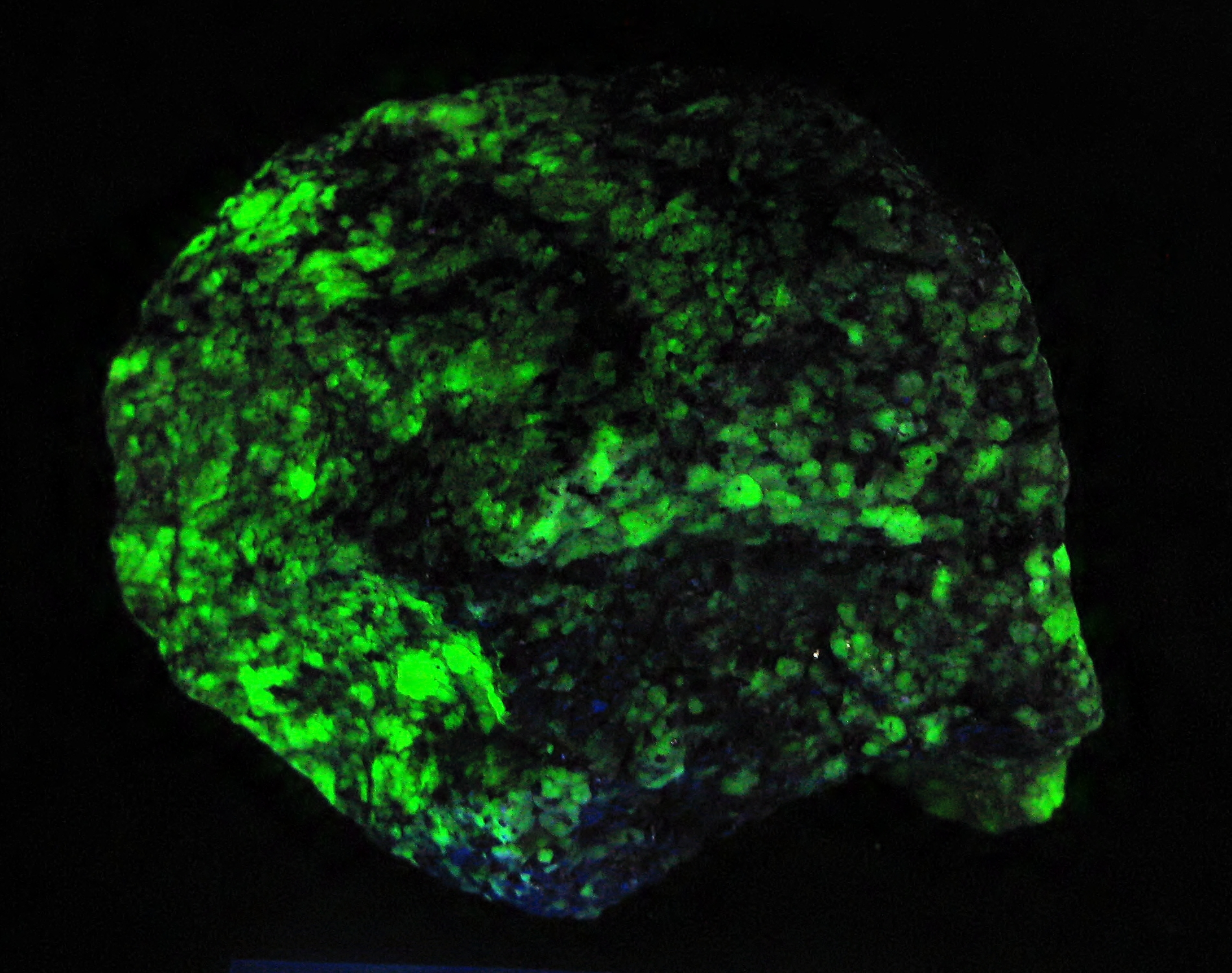 Willemite with fluorescence - Locality: Franklin Sterling Hill, New Jersey, USA - Exposed in the Mineralogical Museum, Bonn, Germany